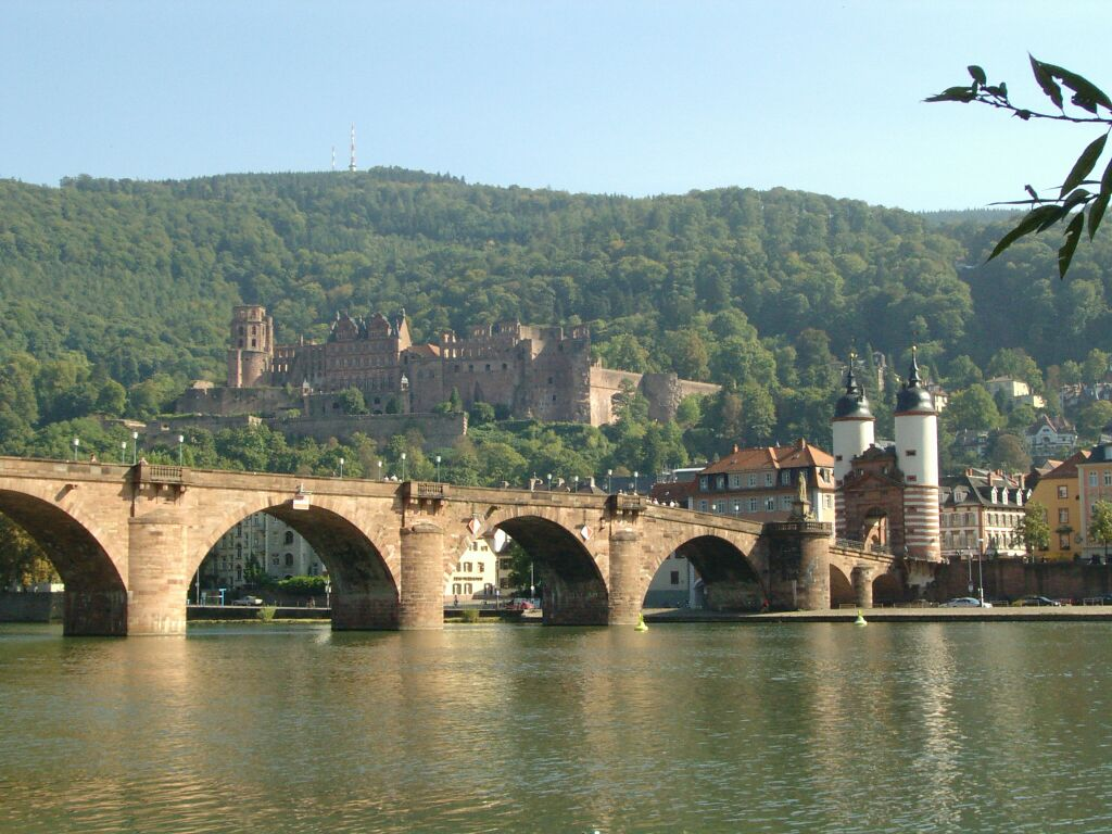 Heidelberg, Germany: Castle and "Old Bridge"